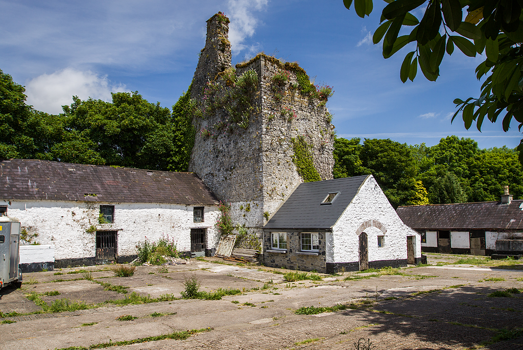 Castles of Munster: Wallstown, Cork